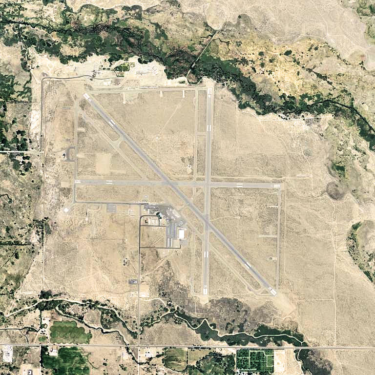 USGS digital orthophoto of Eastern Sierra Regional Airport in California